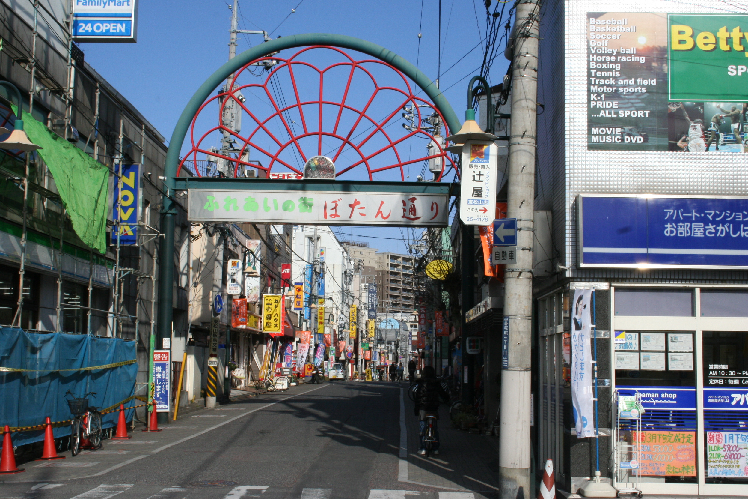 Botan-dori shopping street, Higashimatsuyama-shi, Saitama, Japan